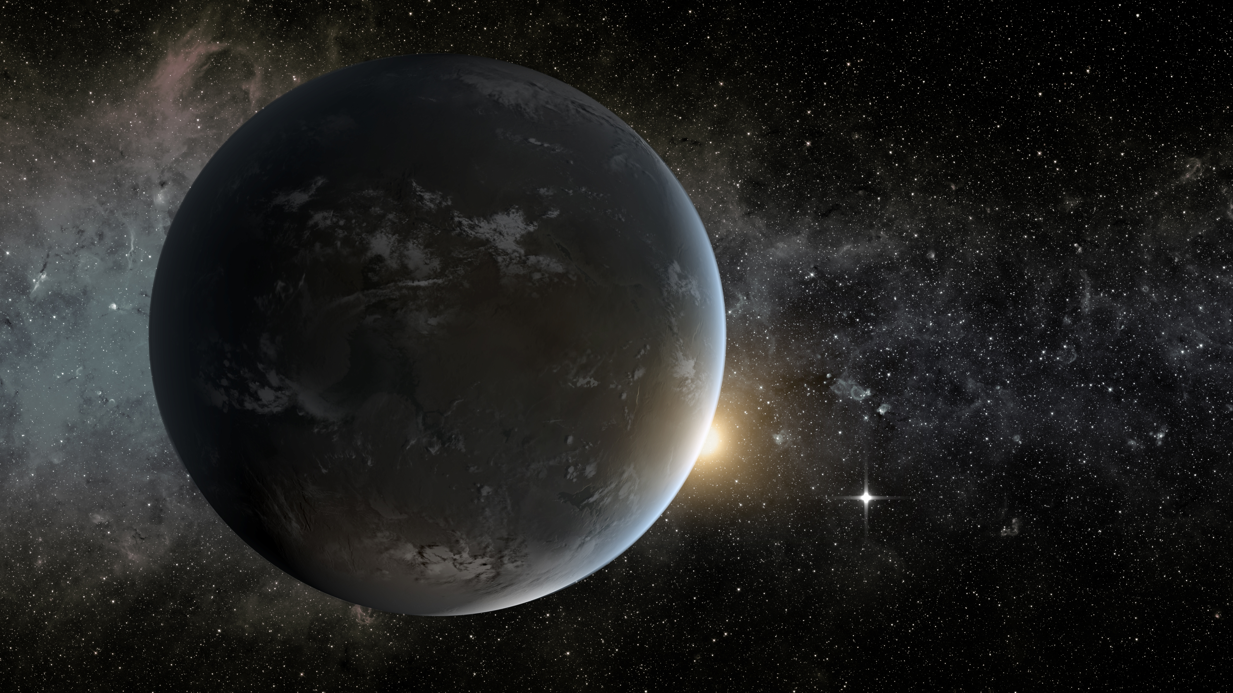 Kepler-62f with 62e as Morning Star The artist's concept depicts NASA's Kepler misssion's smallest habitable zone planet. Seen in the foreground is Kepler-62f, a super-Earth-size planet in the habitable zone of a star smaller and cooler than the sun, located about 1,200 light-years from Earth in the constellation Lyra. Kepler-62f orbits its host star every 267 days and is roughly 40 percent larger than Earth in size. The size of Kepler-62f is known, but its mass and composition are not. However, based on previous exoplanet discoveries of similar size that are rocky, scientists are able to determine its mass by association. Much like our solar system, Kepler-62 is home to two habitable zone worlds. The small shining object seen to the right of Kepler-62f is Kepler-62e. Orbiting on the inner edge of the habitable zone, Kepler-62e is roughly 60 percent larger than Earth. Image credit: NASA Ames/JPL-Caltech